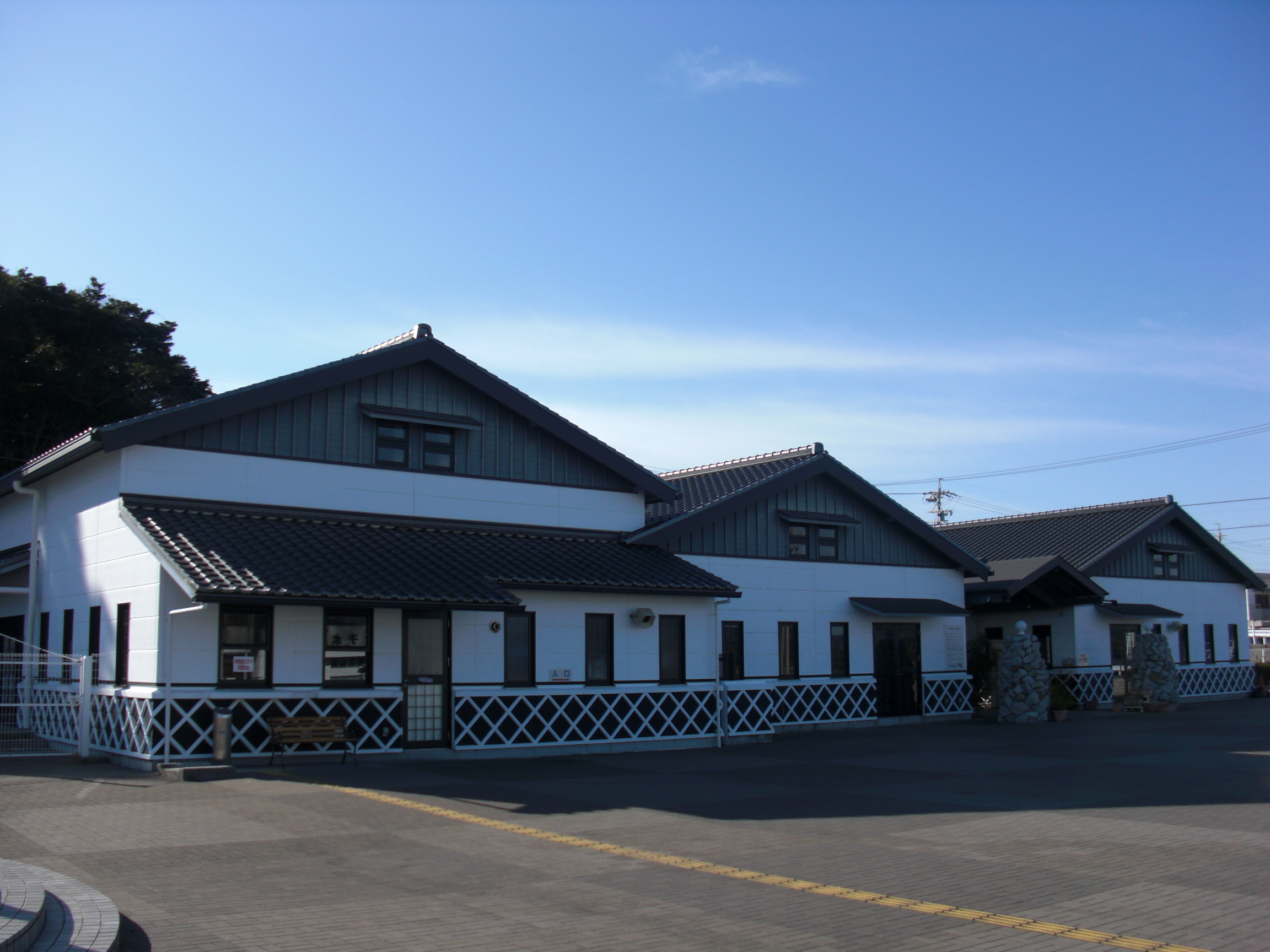 This is the Shima city Hamajima Beach experience facility "Umihozuki", which is located in Shima, Mie, Japan.